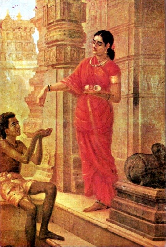 An aristocratic lady coming out from temple and giving alms.